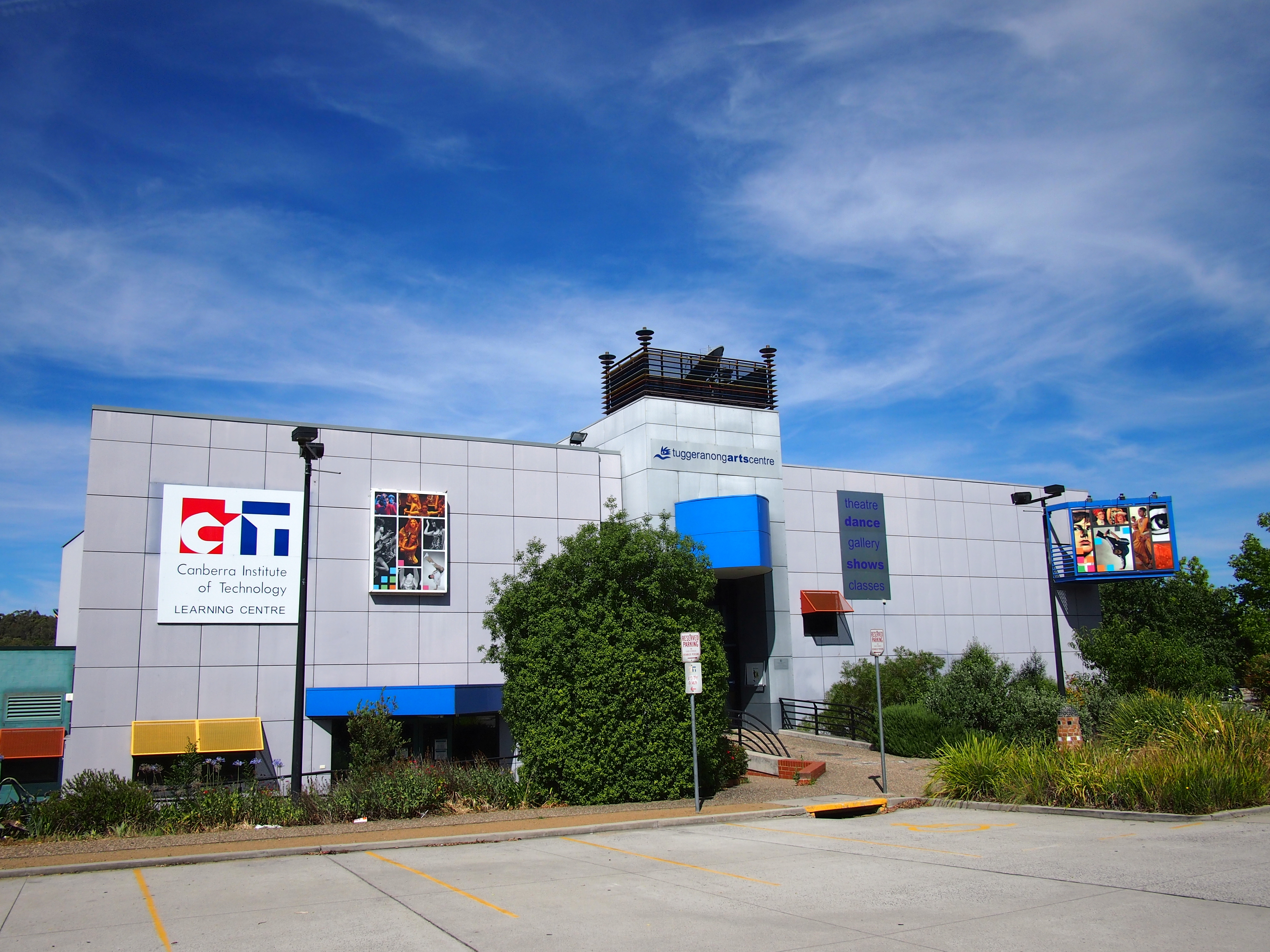 The western face of Tuggeranong Arts Centre